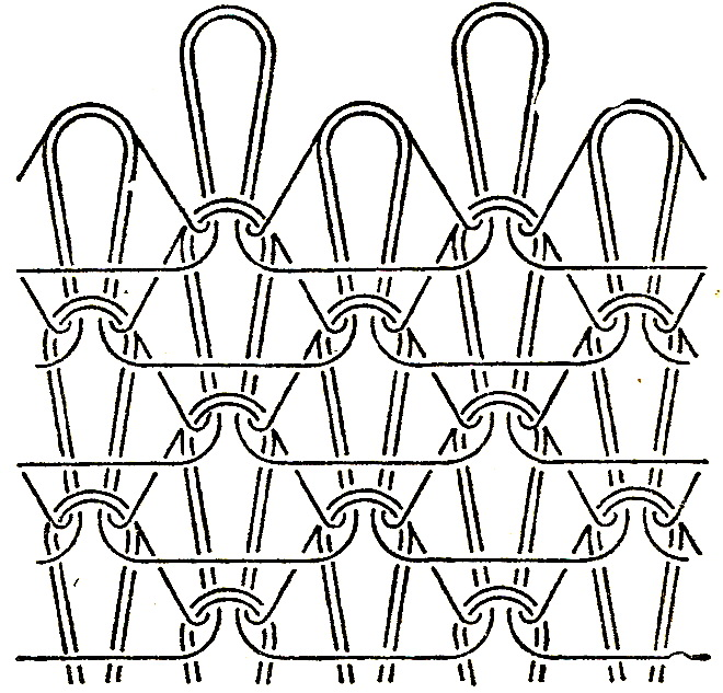 Micromesh (ladder-resist) knitted structure